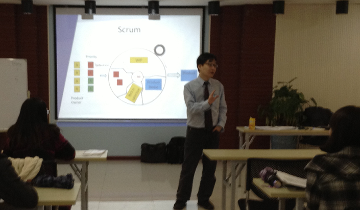 Scrum Scrum